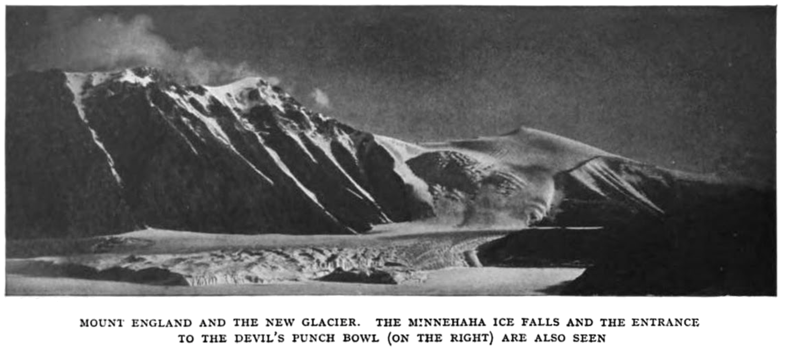 photo from the Scott Expedition of Mount England and the New Glacier